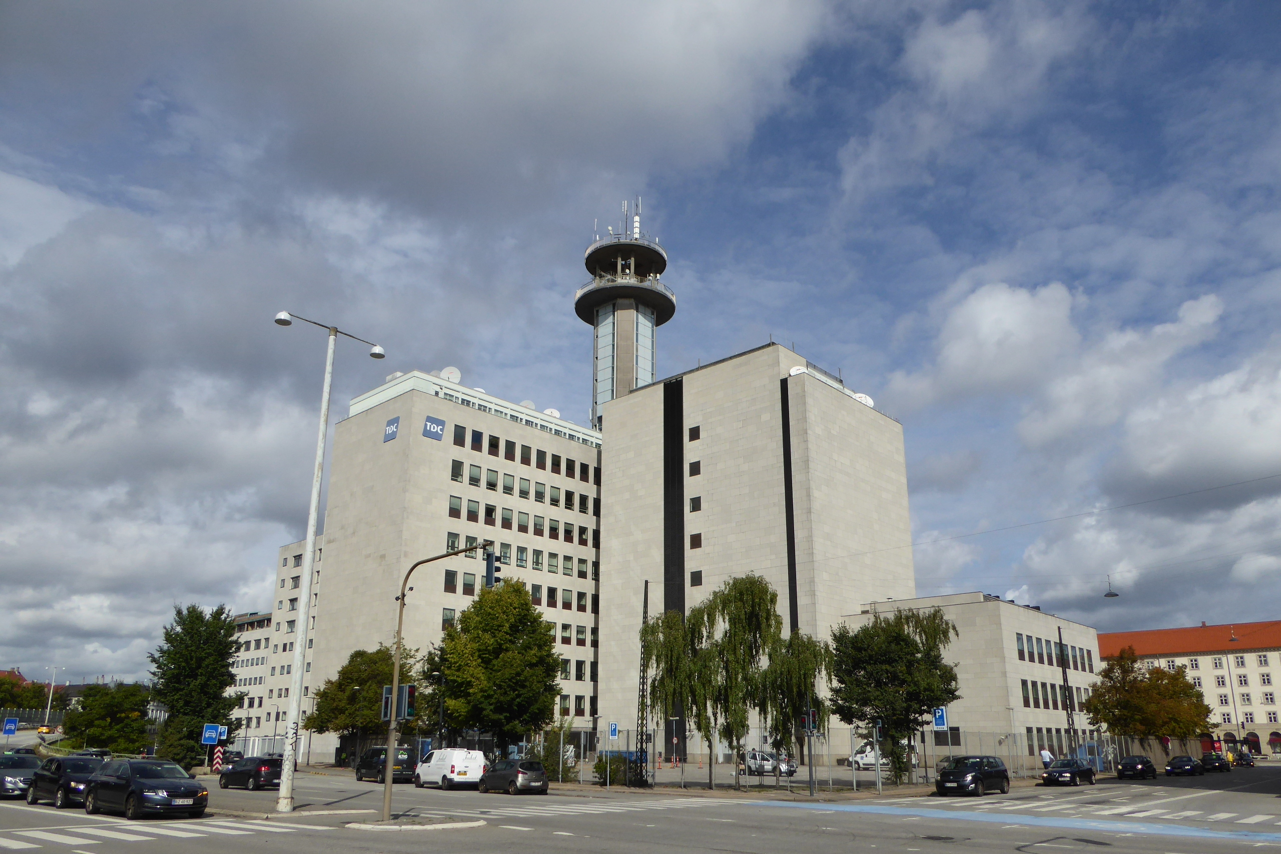 Telefonhuset (the telephone house) at Ågade in Nørrebro in Copenhagen.